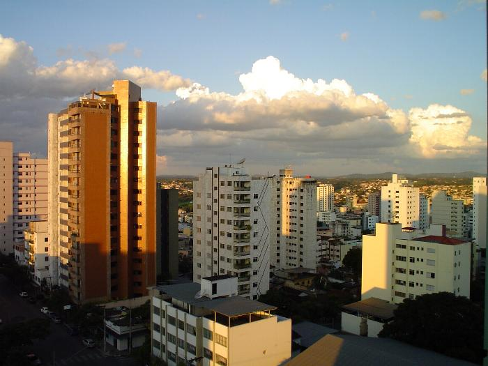 Divinópolis, Minas Gerais, Brazil - Photographer: Edgard Mourão